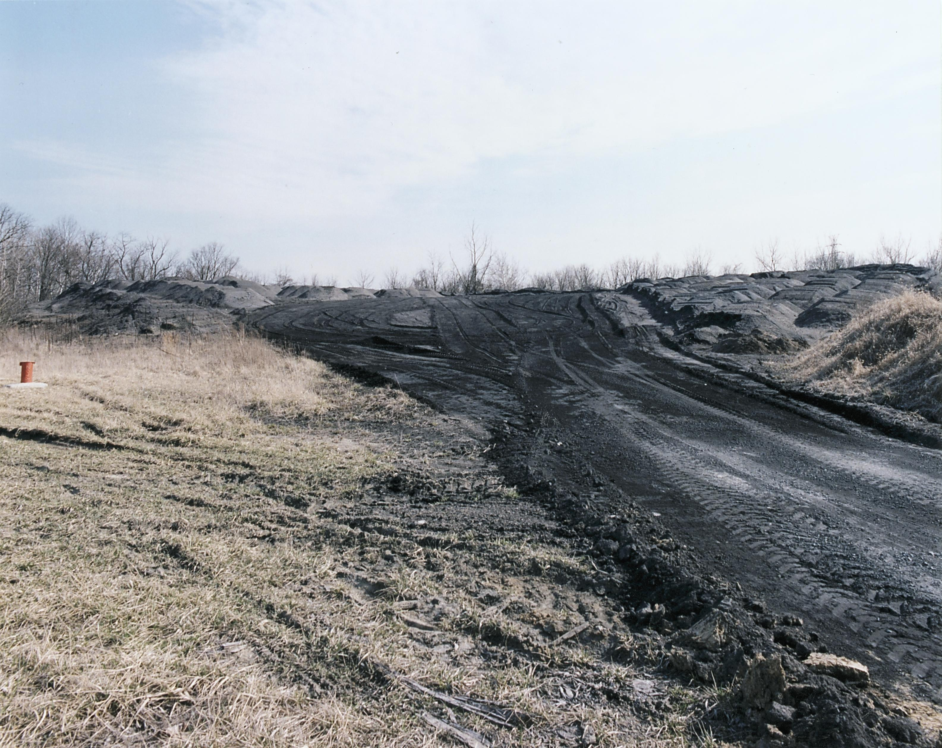 Flyash Pile For more information or additional images, please contact 202-586-5251.